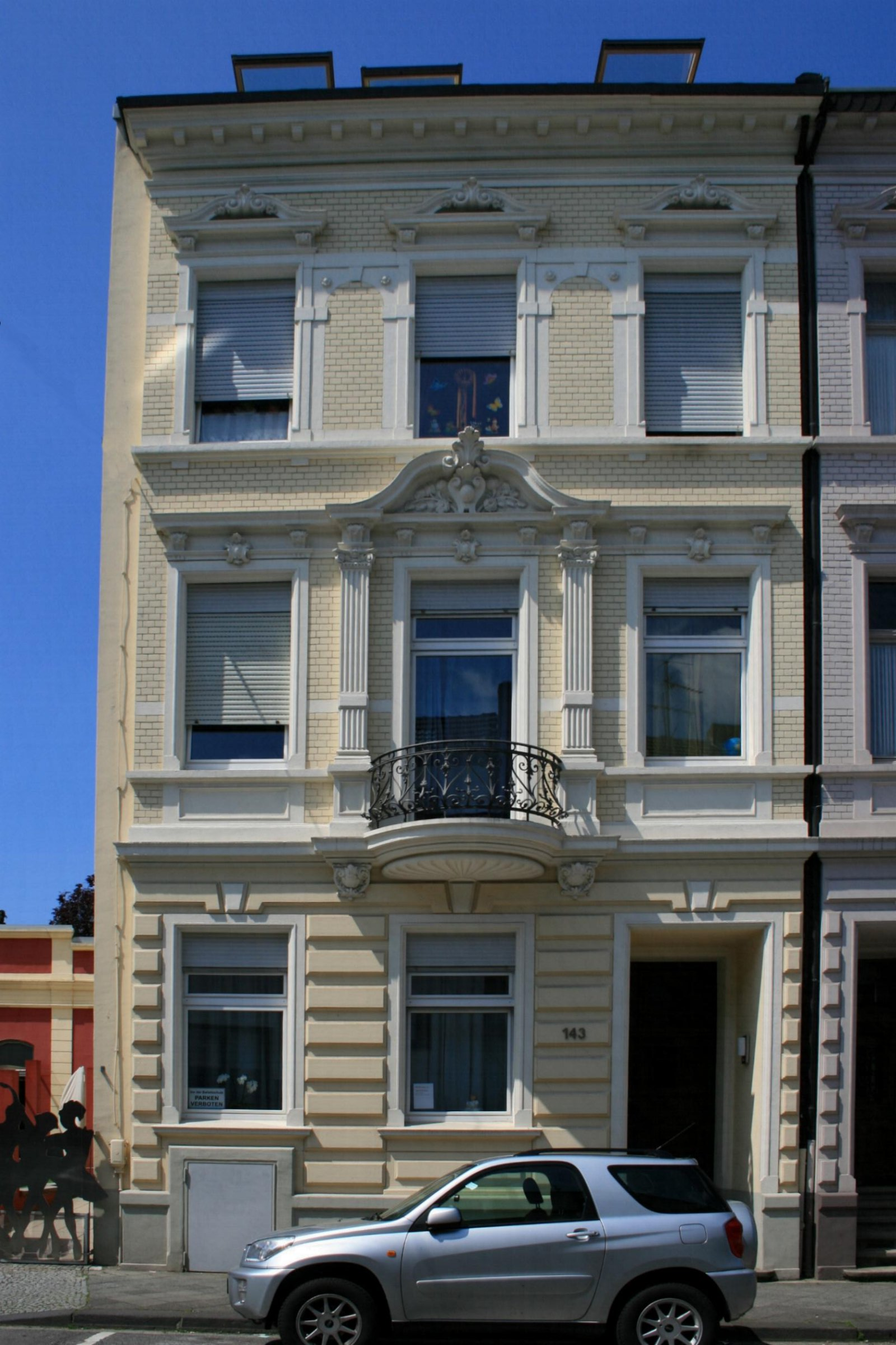 Cultural heritage monument No. K 066 in Mönchengladbach